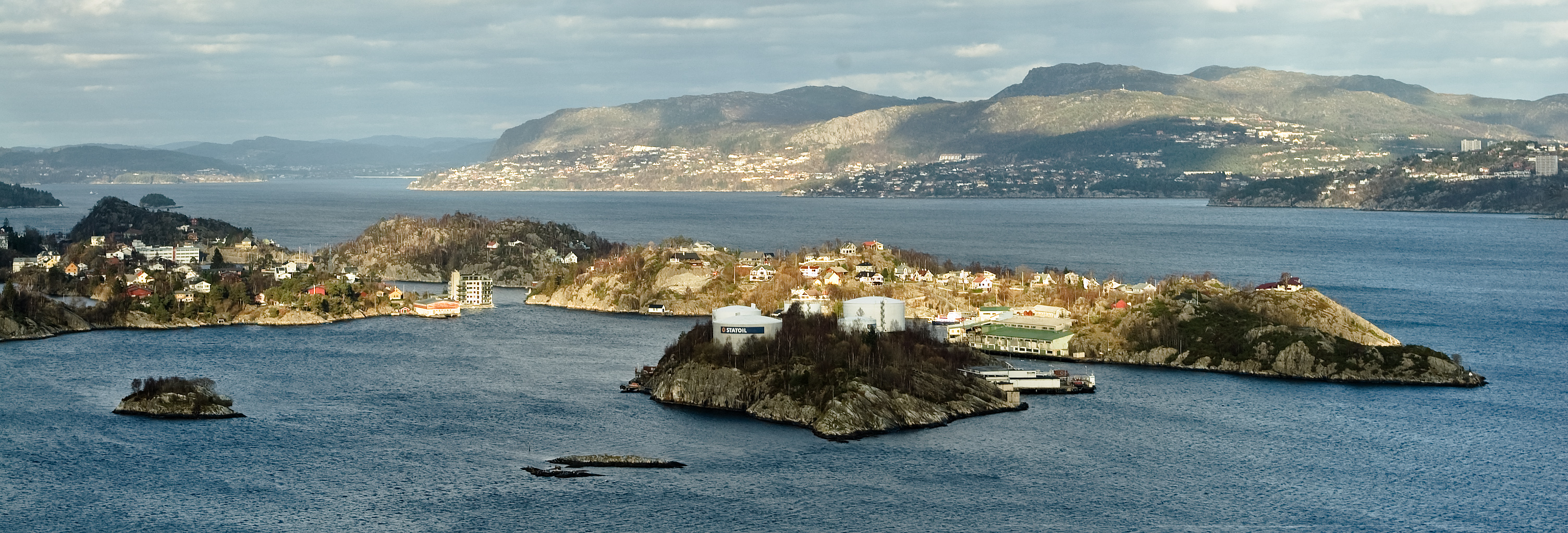 Islands off Florvåg in Askøy, Hordaland, Norway. Åsane in Bergen is visible in the background.